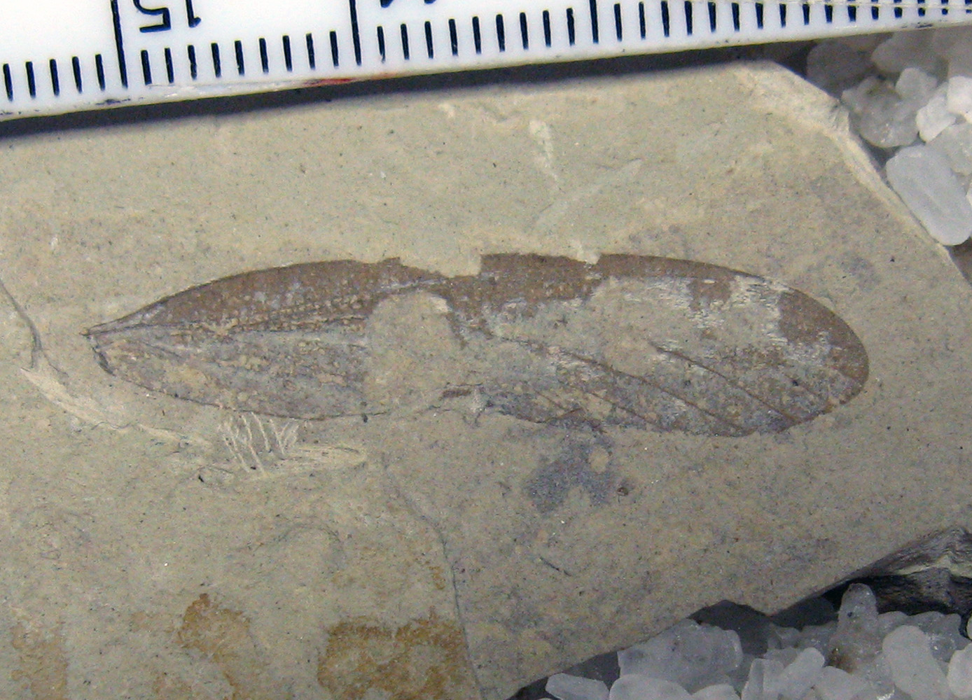 Dinokanaga andersoni Holotype. A 3.4cm wing with partly preserved color patterning. Eocene, 49 million years old, "Boot Hill", Klondike Mountain Formation, Republic, Washington, USA. Stonerose Interpretive Center Collection # SR 01-06-01